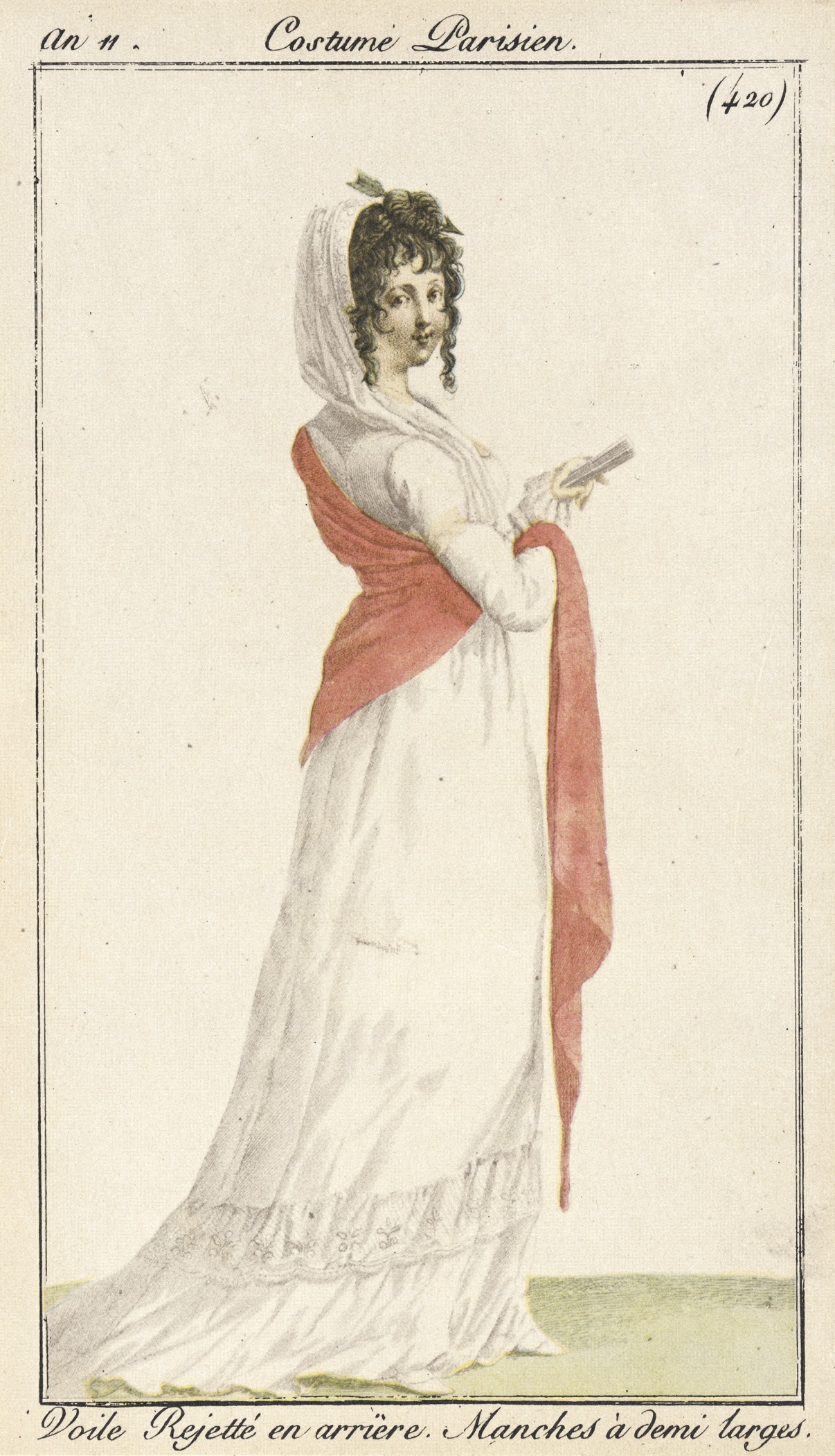 United States, 1870 Periodical: Peterson's Magazine Prints; lithographs Colored lithograph 8 7/8 x 10 11/16 in. (22.5425 x 27.1463 cm) Gift of Charles LeMaire (M.83.161.83) Costume and Textiles